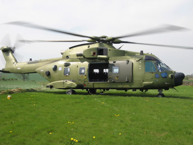 Elwood H.L.S. ( Heliport ) Barrasford RAF Merlin Mk3a Training Sorte